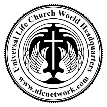 The Official seal and logo of the Universal Life Church World Headquarters